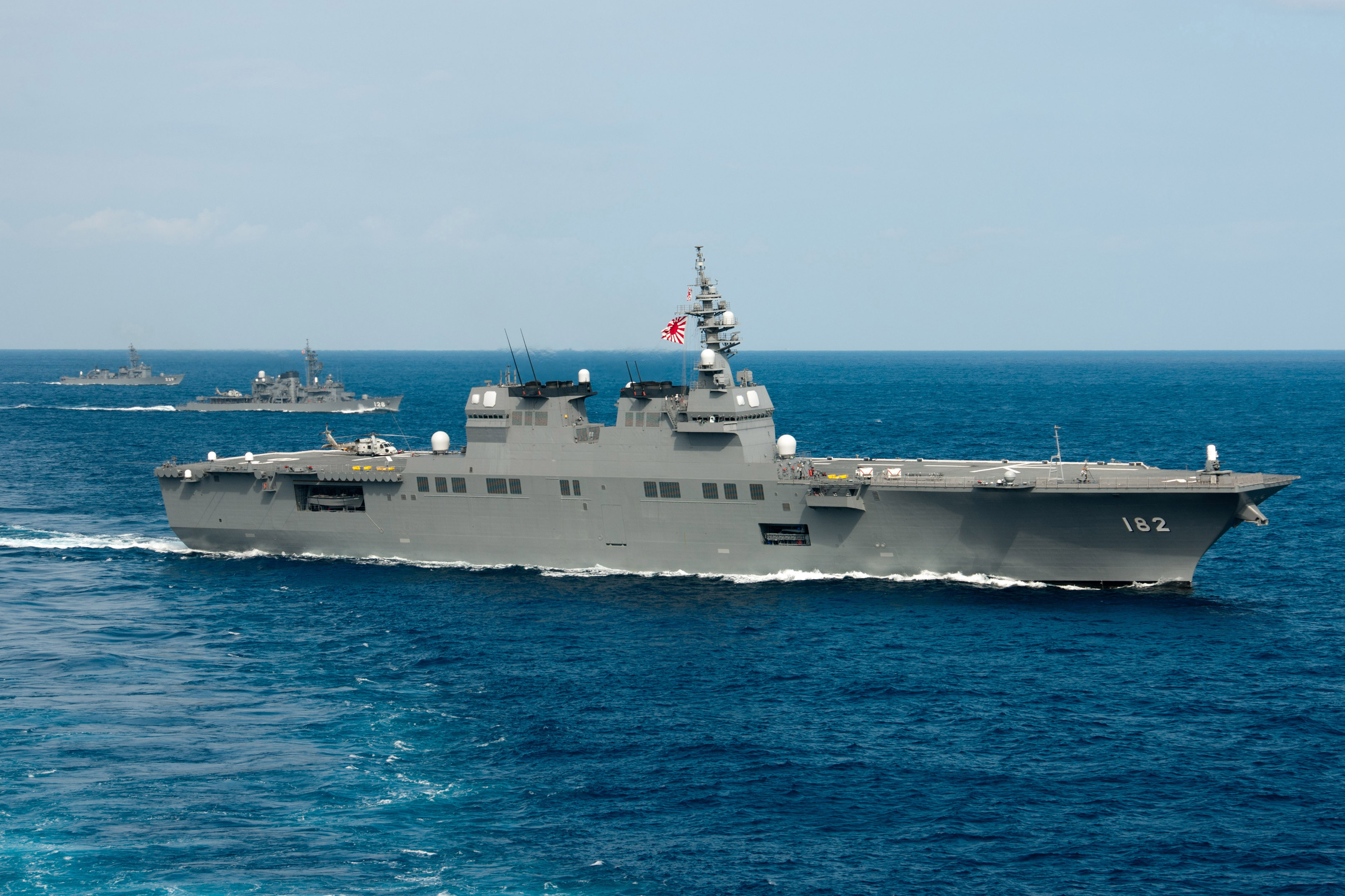 EAST CHINA SEA (Nov. 16, 2012) - Japan Maritime Self-Defense Force ships JS Ise (DDH-182), JS Haruyuki (DD-128) and JS Abukuma (DE-229) turn together in formation after a steaming in formation with other JMSDF and US Navy ships following the conclusion of exercise Keen Sword 2013. (U.S. Navy photo by Lt. Cmdr. Denver Applehans/Released) Nikon D300S